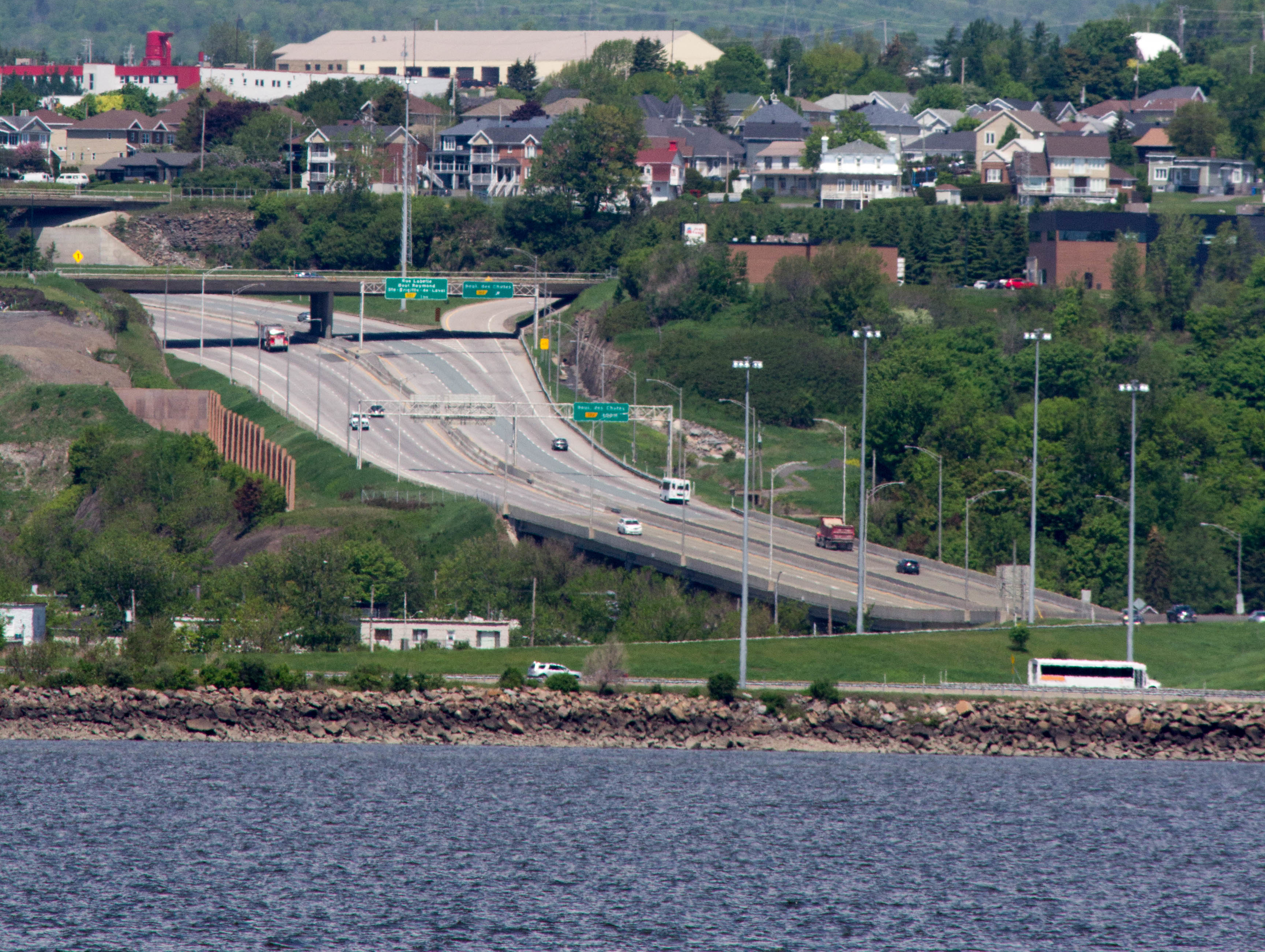 Quebec Autoroute 40 at exit 322 as seen from Île d'Orléans